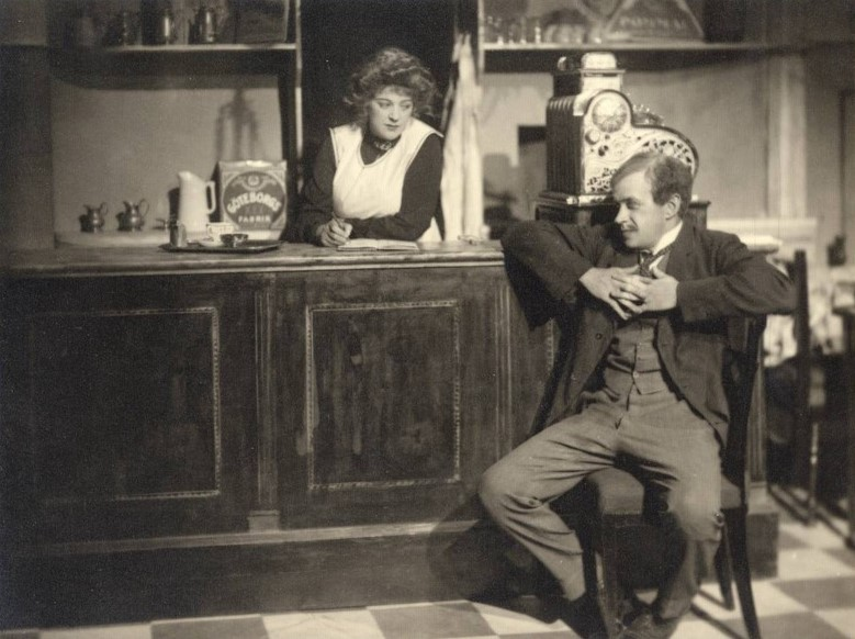 Märta Ekström & Anders Henrikson in the Hjalmar Bergman's play Markurells i Wadköping, Dramaten - publicity still